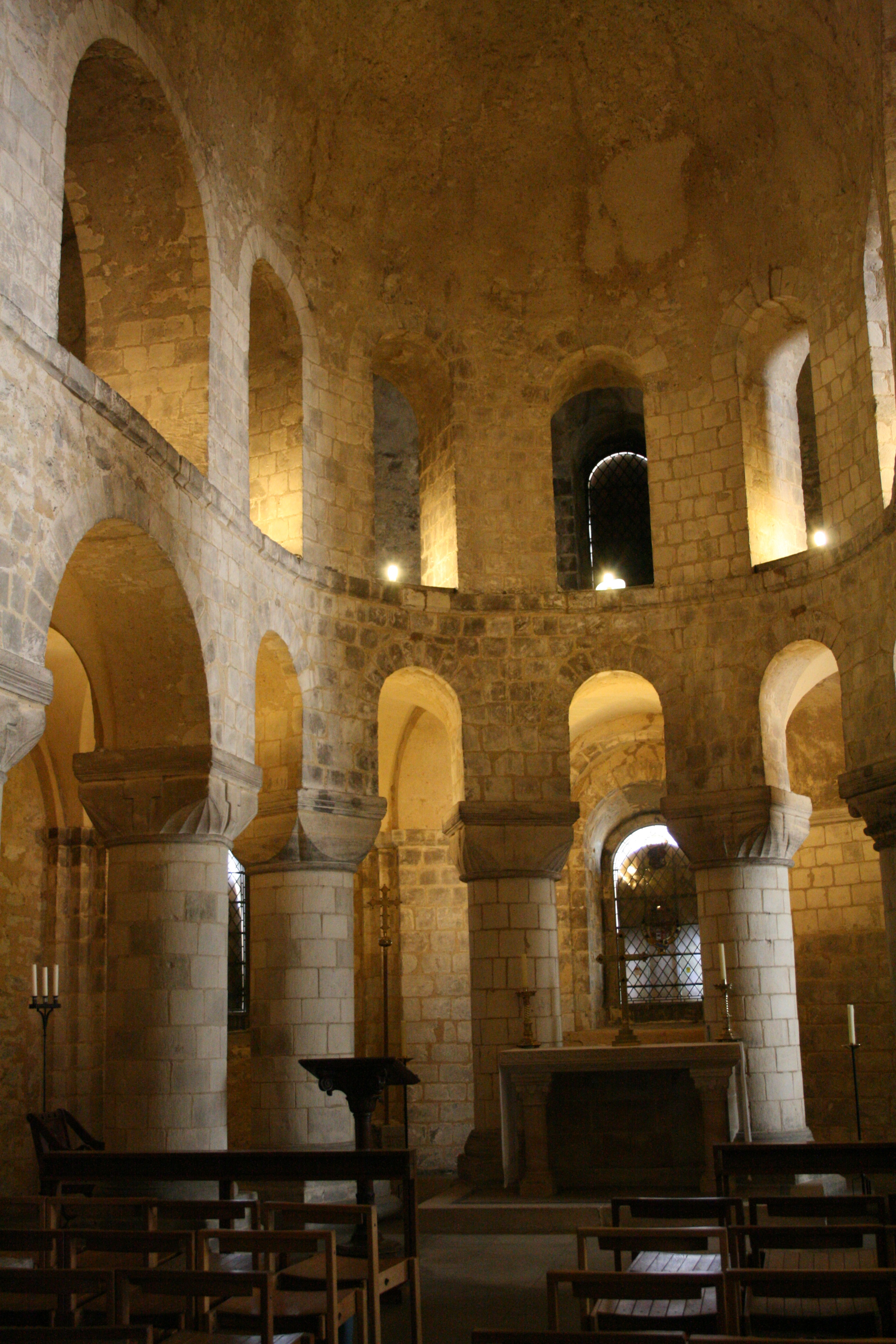 11th century romanesque Chapel of St John the Evangelist in the white Tower (Tower of London)